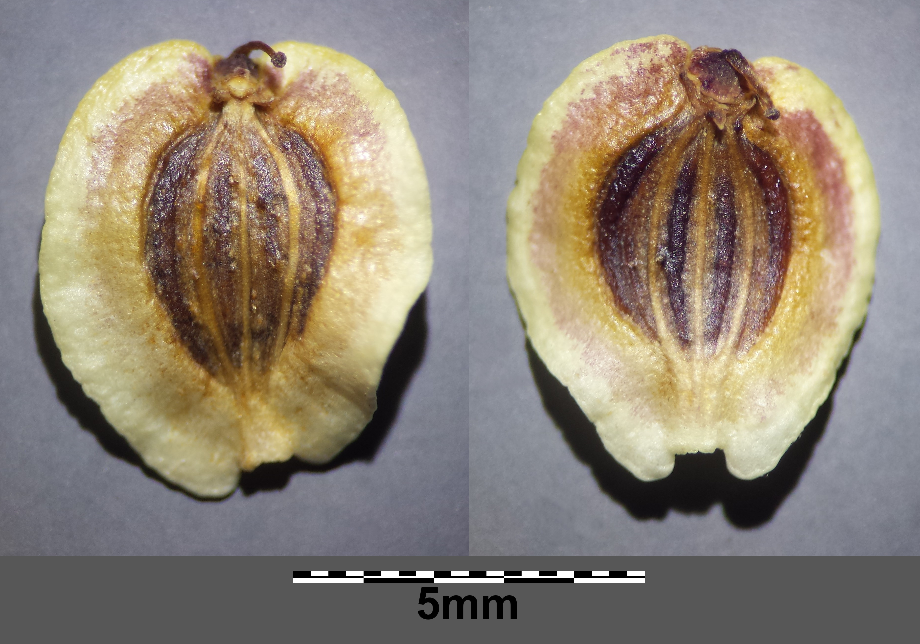 Fruit Taxonym: Peucedanum oreoselinum ss Fischer et al. EfÖLS 2008 ISBN 978-3-85474-187-9 Location: Eichleiten to the North of Enzersfeld, district Korneuburg, Lower Austria - ca. 240 m a.s.l. Habitat: semi-dry grassland